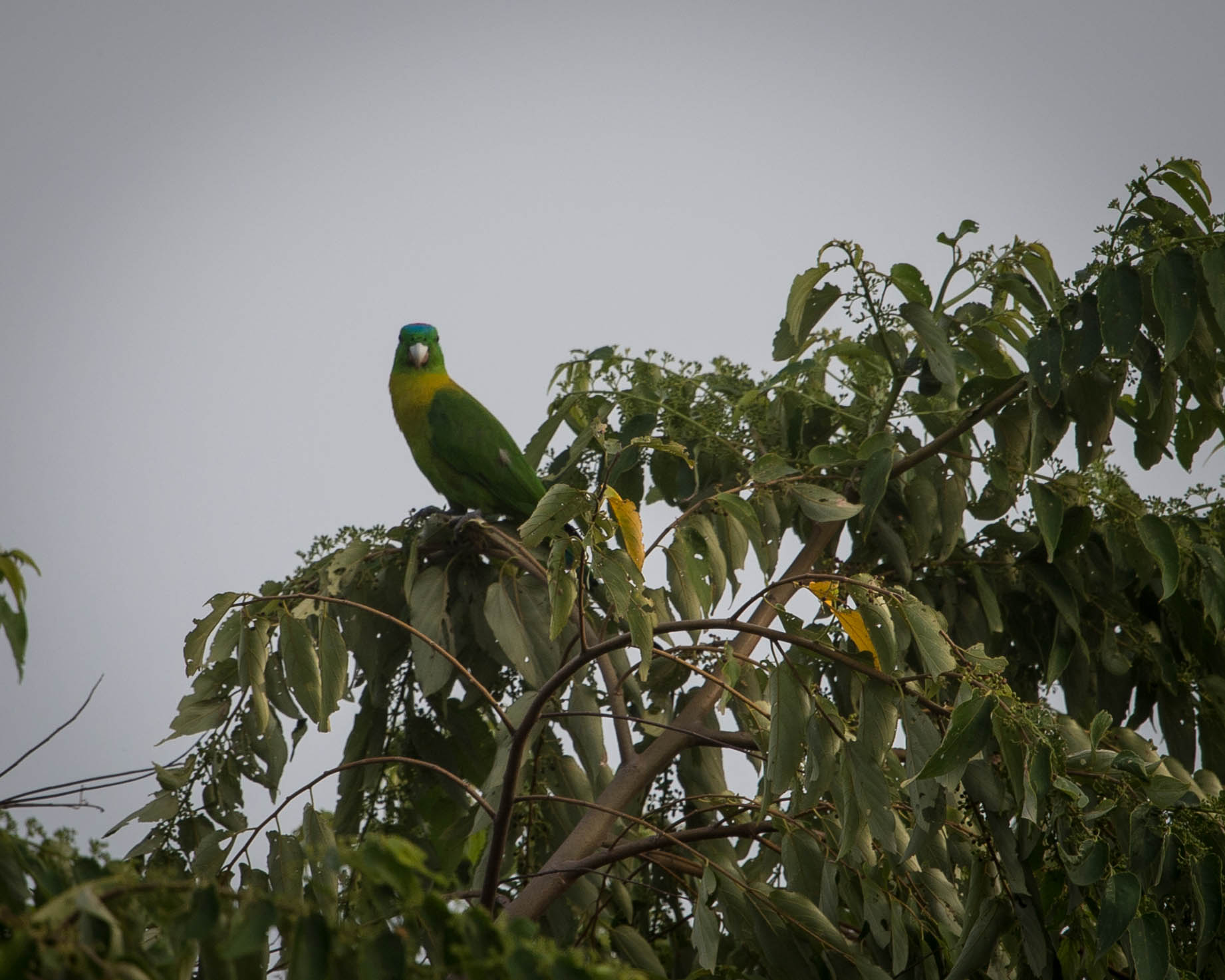 A male Yellow-breasted Racket-tail in North Sulawesi, Indonesia.